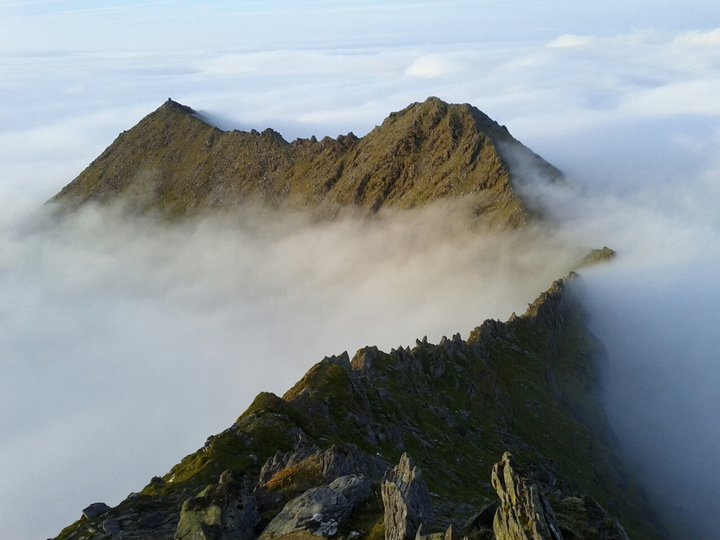 Summit of Cruach Mhor (left) and The Big Gun (right), with the ridge from Cnoc na Peiste to The Big Gun in the foreground